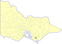 Location of the Shire of Mirboo within Victoria.